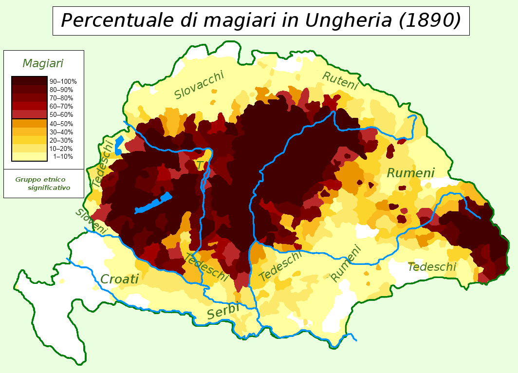 Hungarian population in Hungary according to the census from 1890, and other significant ethnic groups labeled. Source: Pallas Nagy Lexikon, 1897